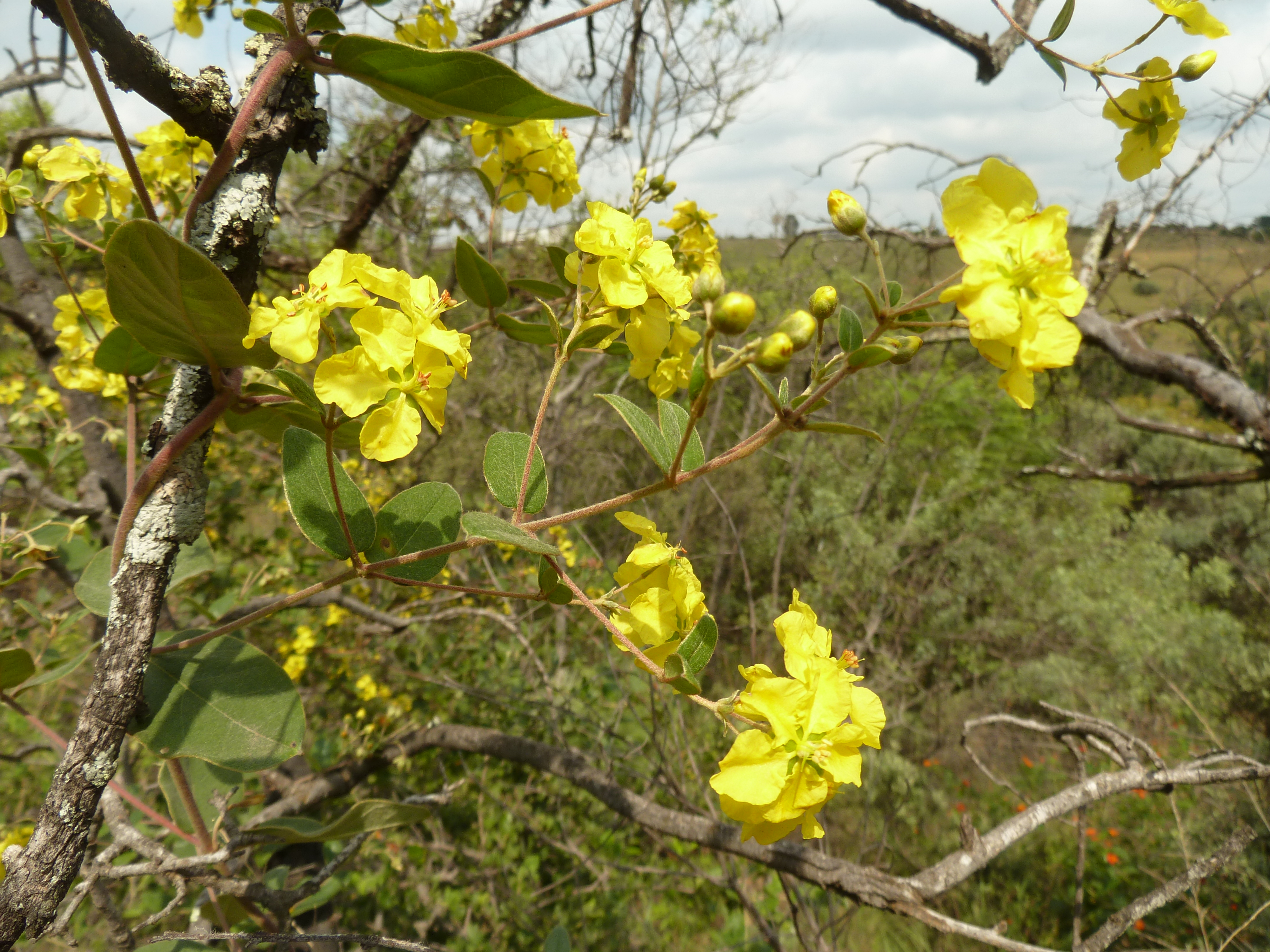 Flowers of a Canary nettle in Groenkloof Nature Reserve